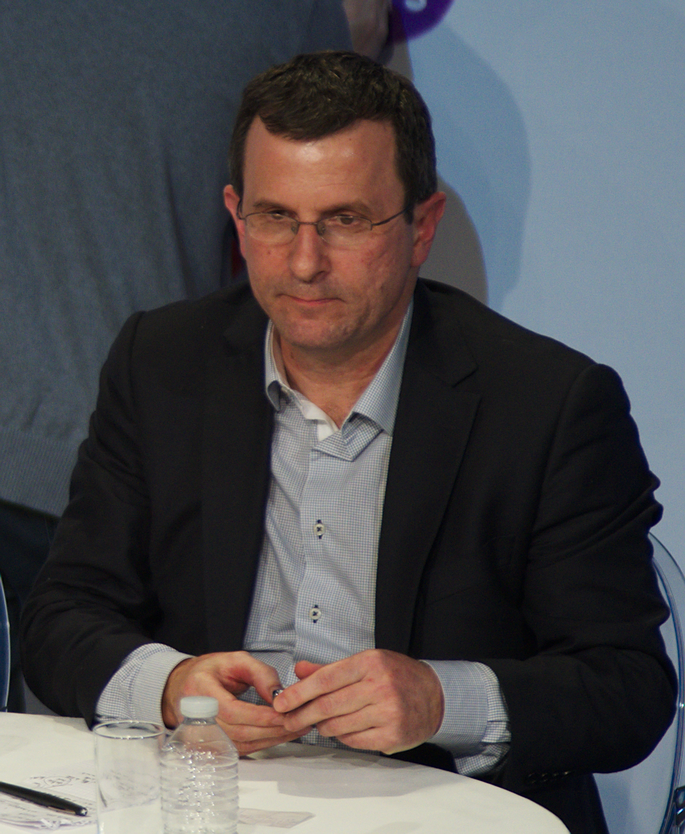 Christophe Borgel, Député de la 9e circonscription de la Haute-Garonne Rassemblement des secrétaires de section du Parti socialiste français - 26 janvier 2013